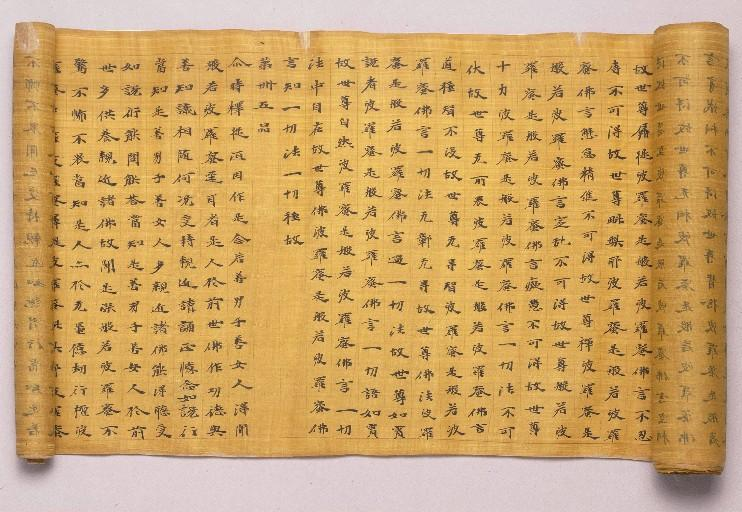 Sutra of the great virtue of wisdom, 5th century Chinese manuscript on silk brought back from the Mogao Caves by the Pelliot mission. Now at Bibliothèque nationale de France (Département des Manuscrits (division orientale) Pelliot chinois 4504).